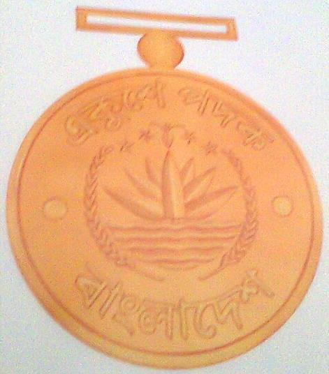 Ekushe Padak